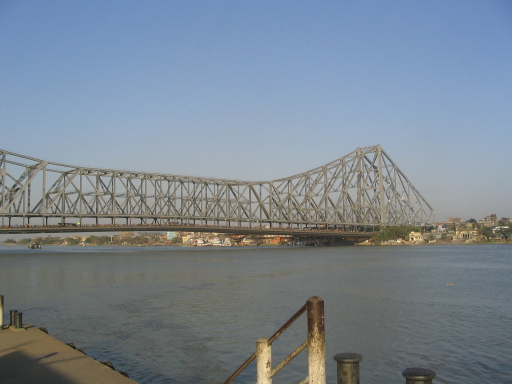 I have taken this snap myself during my Feb 05 vacation to Kolkata. This is taken from Howrah City side and the other end is Kolkata City.fist digvijay rai